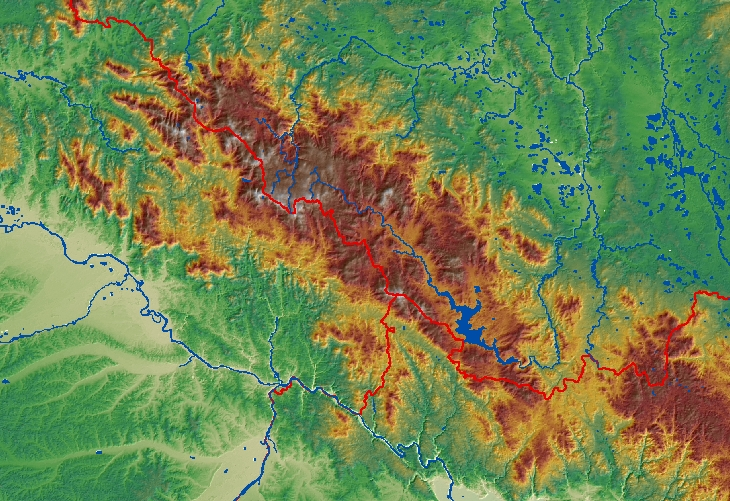 Bohemian Forest Topography; Cesky: Sumava Topografie - in der Dreiländerregion Tschechien, Deutschland, Österreich